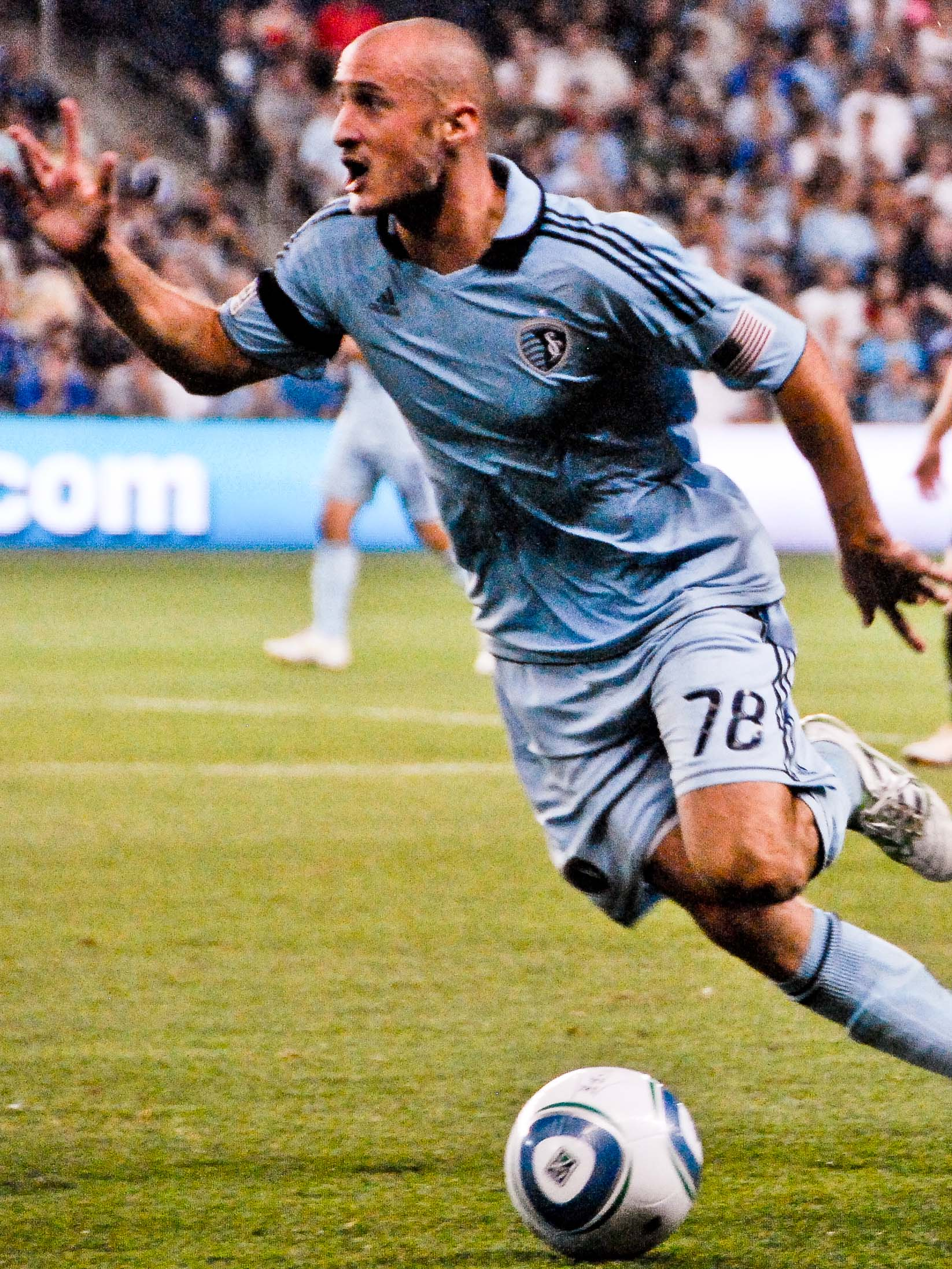 Aurélien Collin of Sporting Kansas City against San Jose Earthquakes This file has been extracted from another file: Aurélien Collin Bobby Convey Sporting KC v San Jose Earthquakes.jpg